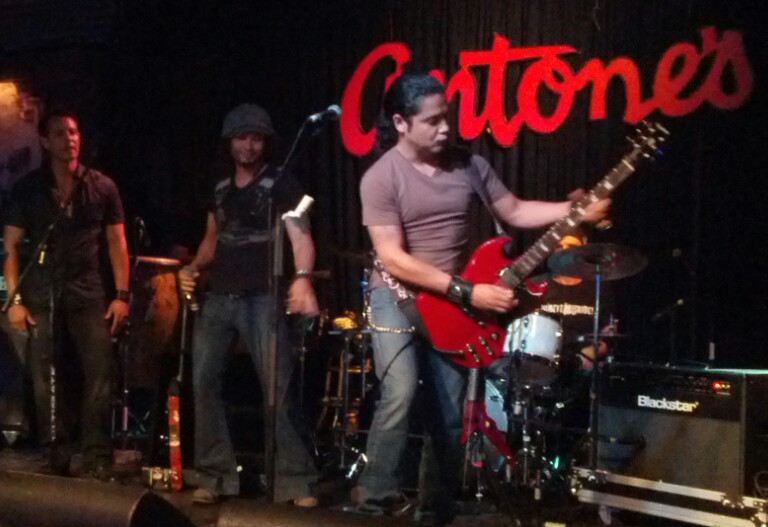 Then Chris Perez took Hayden's guitar.